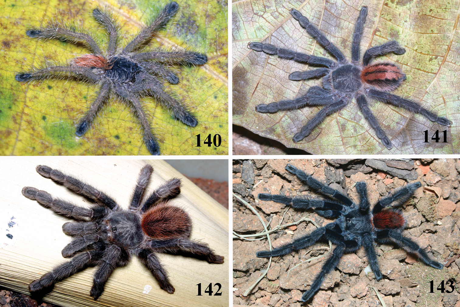 Iridopelma katiae, habitus 140 small immature 141 large immature 142 female 143 male, all from Chapada Diamantina National Park, Mucuge, state of Bahia. Photos: R. Bertani.